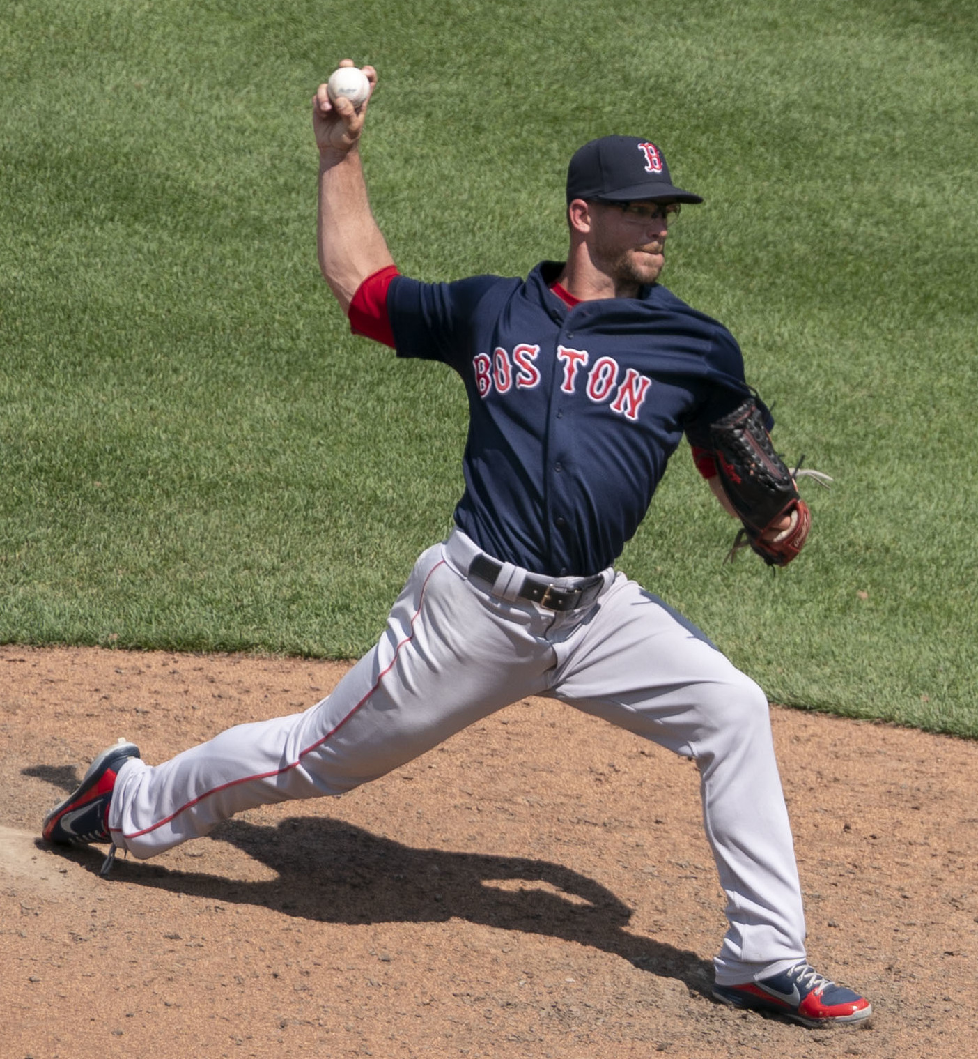 Marcus Walden delivers a pitch for the Boston Red Sox during a 2019 game at Camden Yards in Baltimore